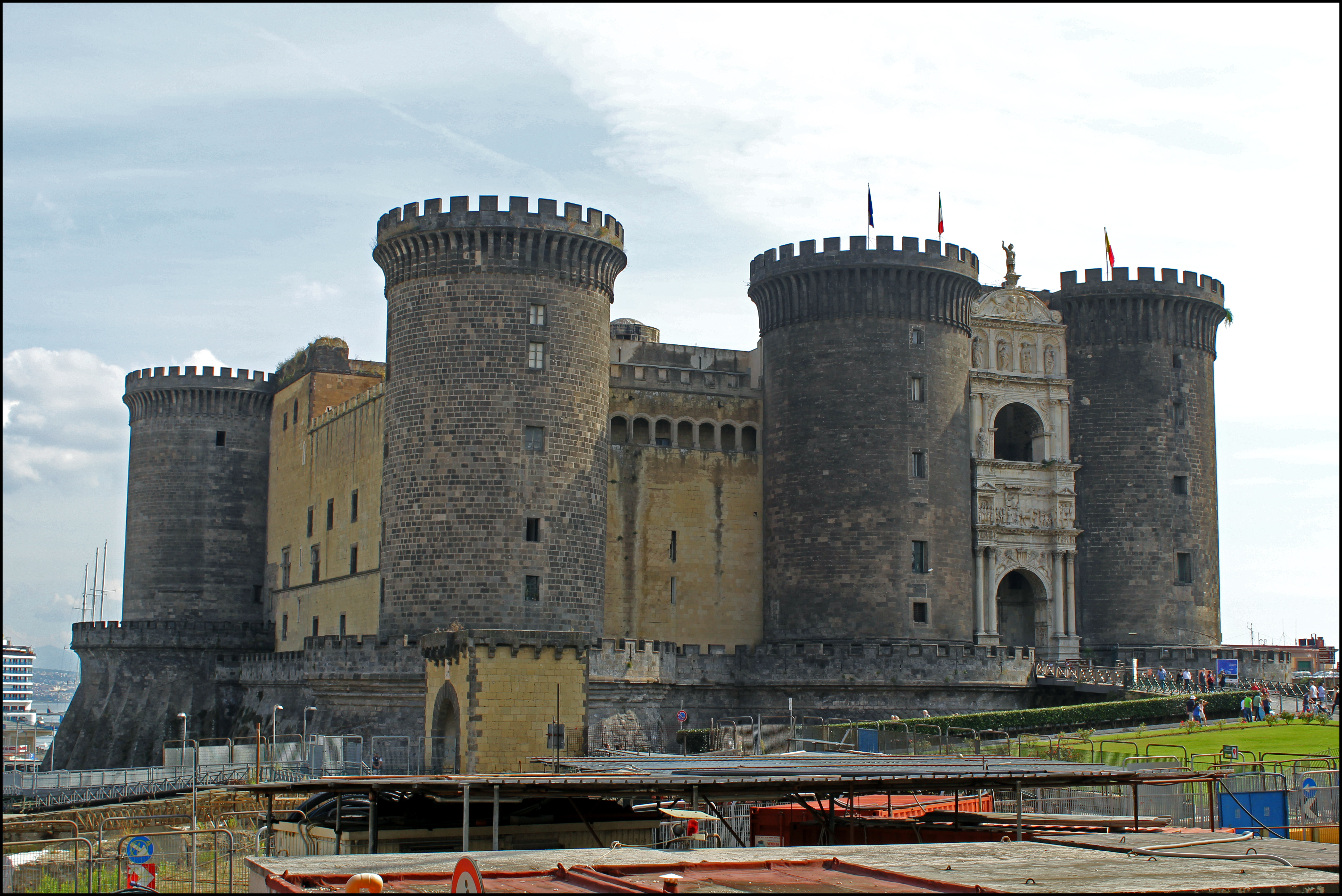 Castel Nuovo (29) This file was generated using equipment from Wikimedia UK, a Wikimedia local chapter.